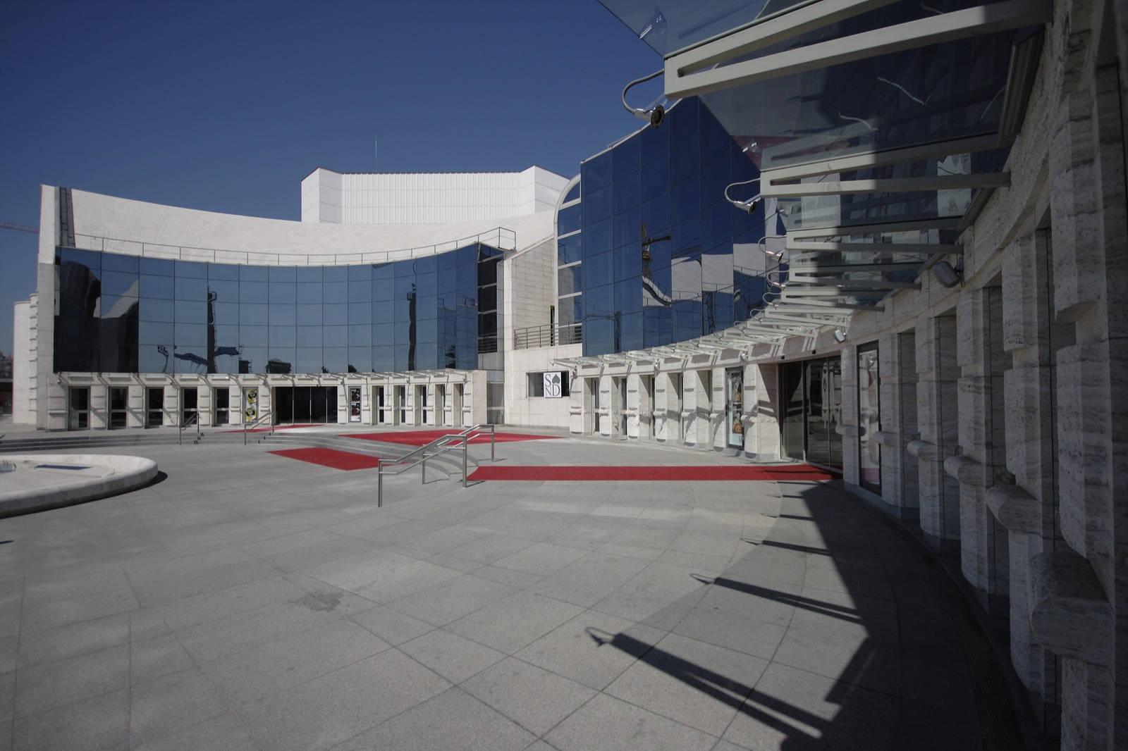 Slovak National Theater